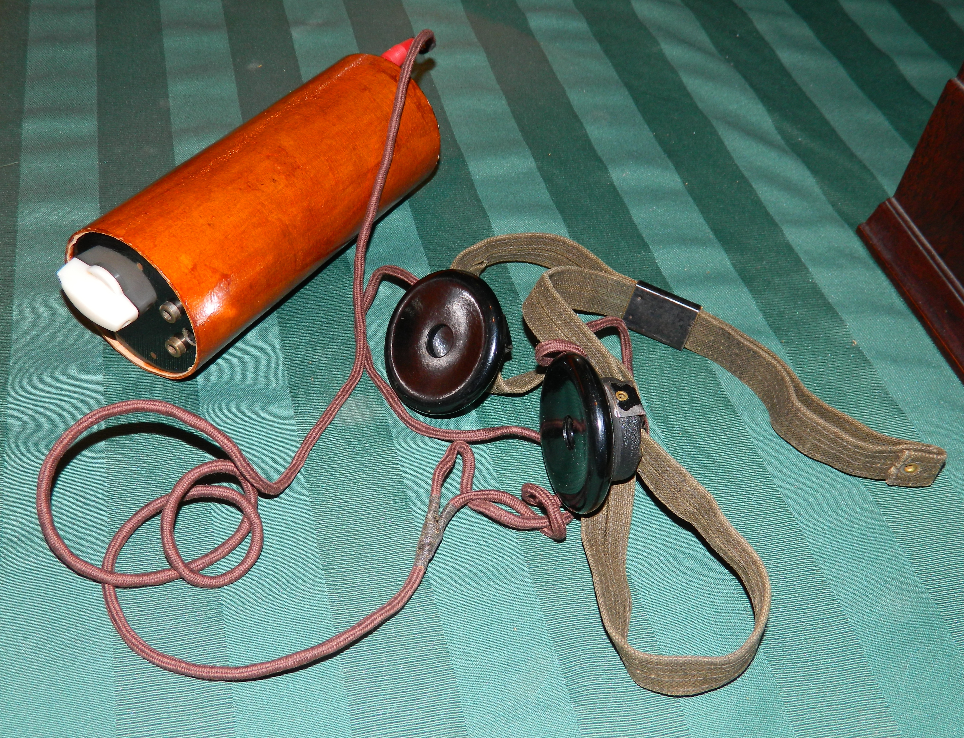 The Stub receiver, a 1807-metres-wave receiver used by the Finnish long-range reconnaissance patrols in the beginning of the Continuation War